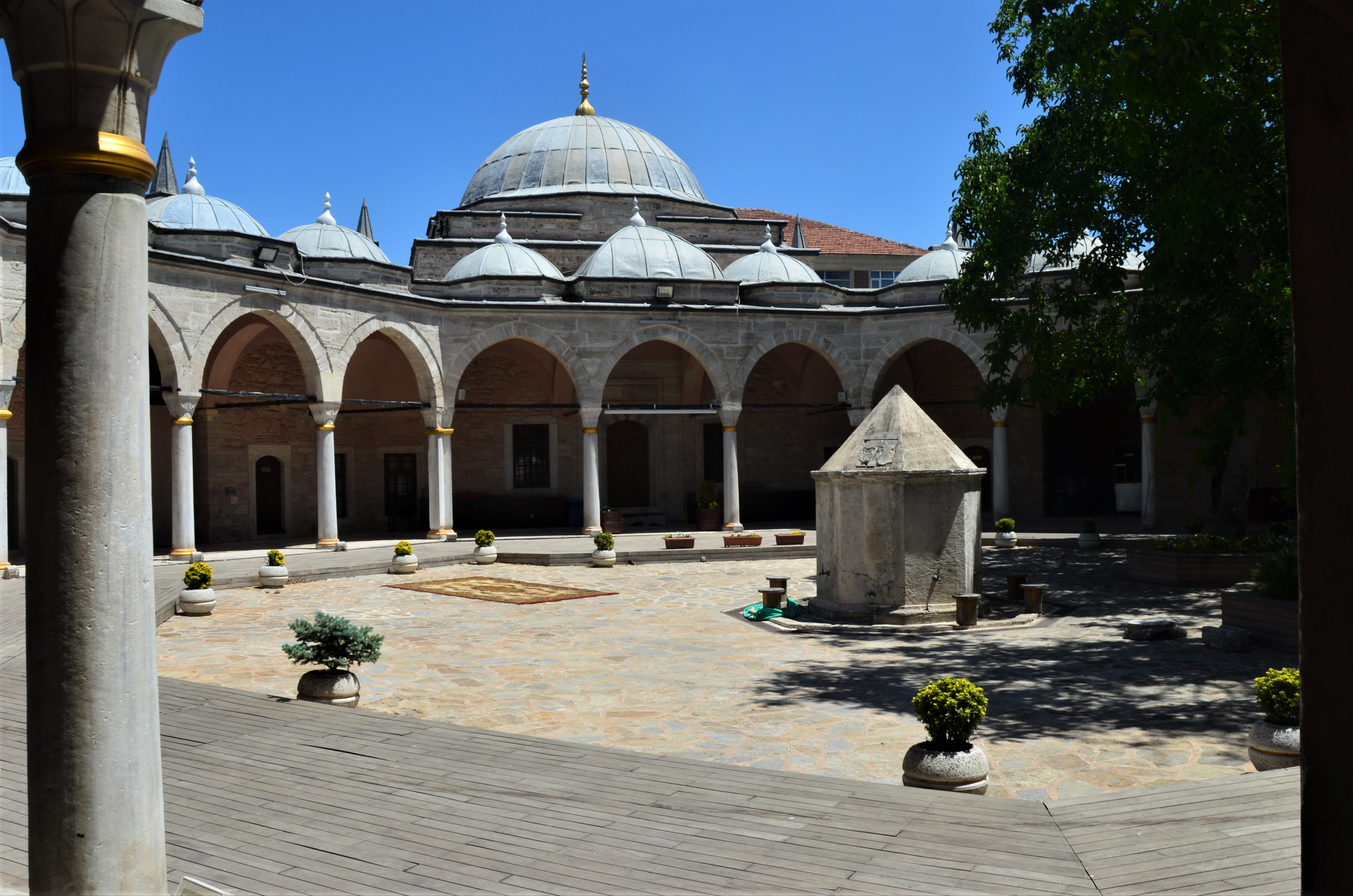 A view of the courtyard with a şadırvan in the center, and domed chambers behind colonade veranda of the Rüstem Pasha Medrese in Fatih, Istanbul Turkey